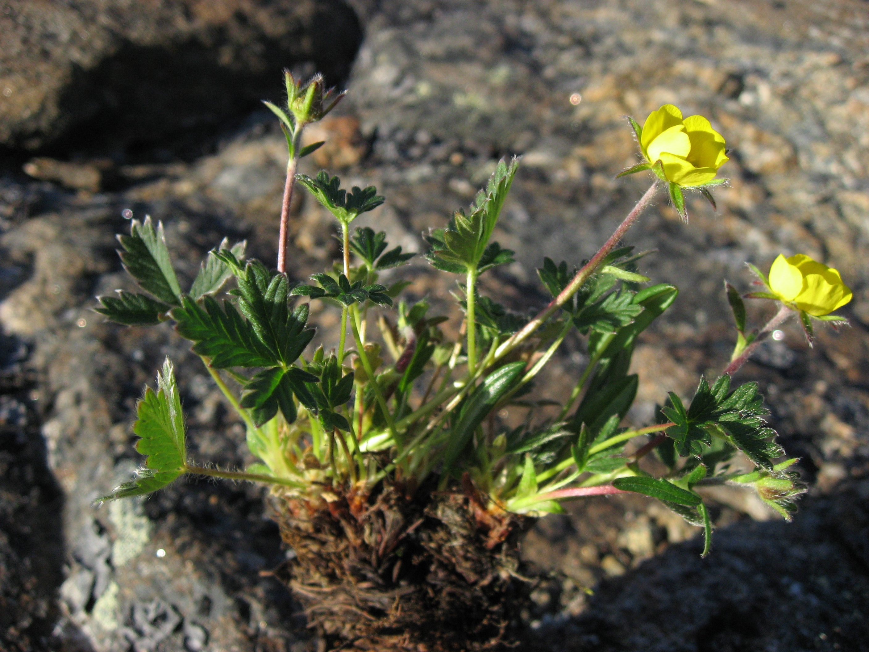 Potentilla hookeriana photographed near Upernavik, Greenland.